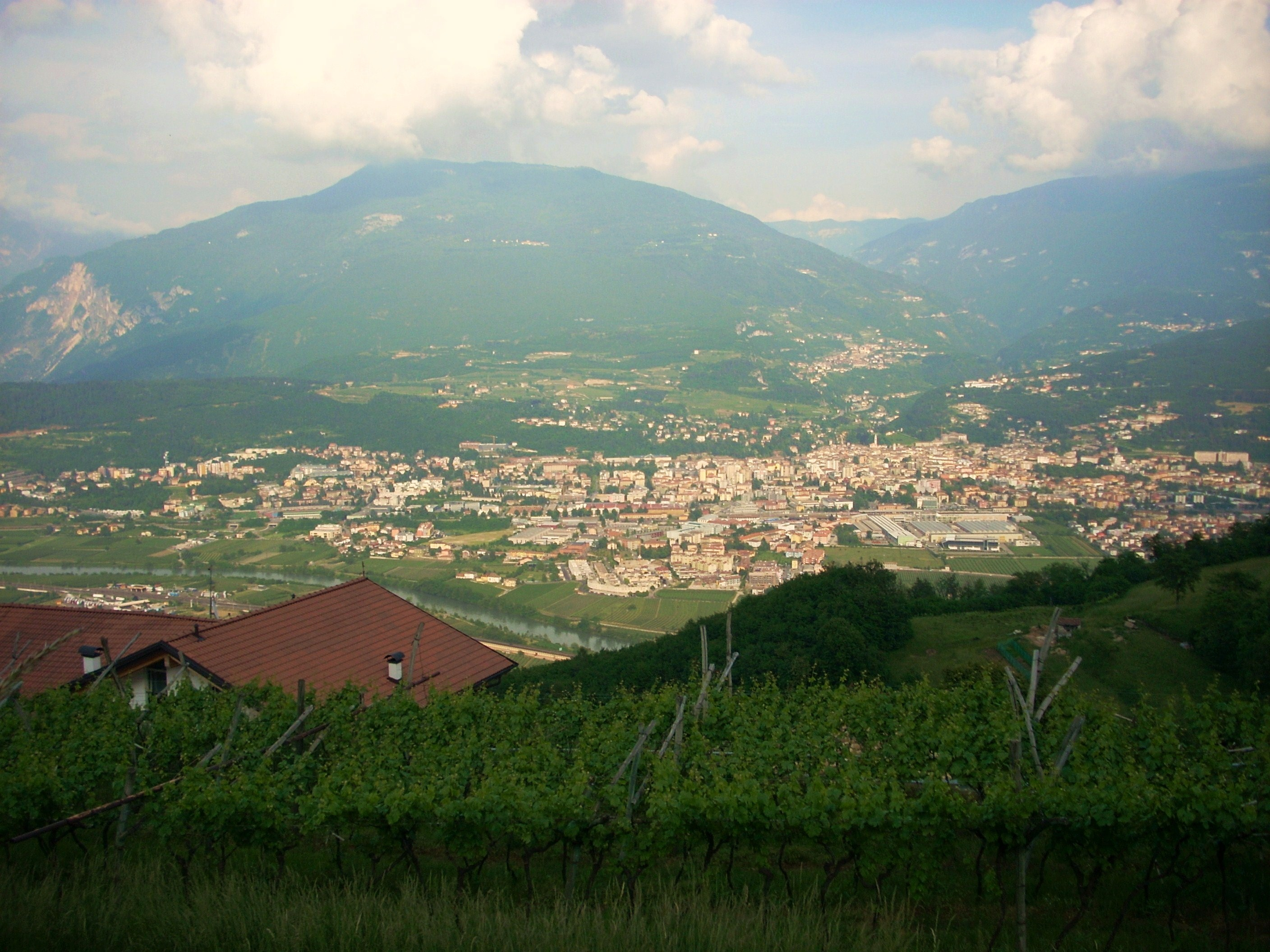 View of Rovereto from Patone (Province of Trento, Italy)